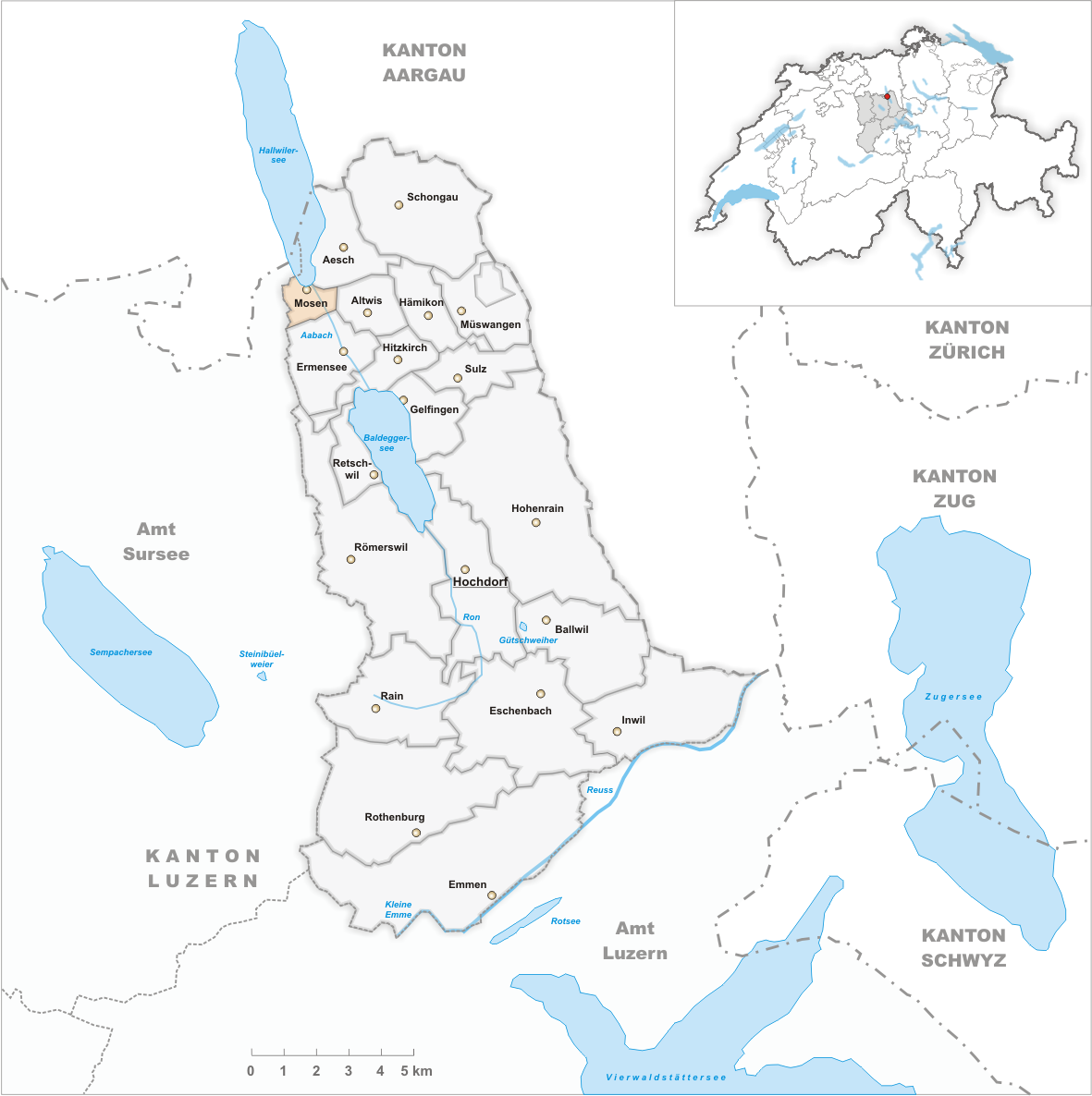 Municipality Mosen